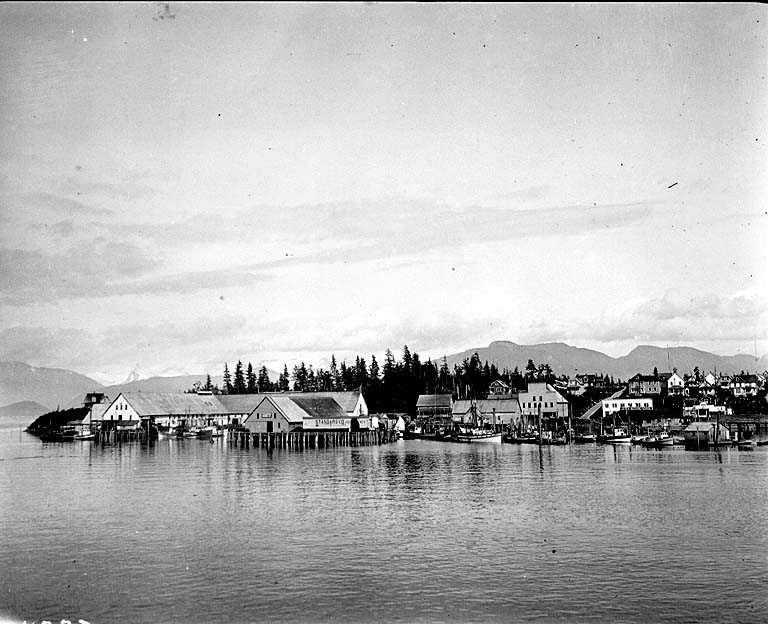 From John Cobb field notebook: Petersburg, Alaska; Petersburg Packing Co. to left. Aug. 1918 Subjects (LCTGM): Canneries--Alaska--Petersburg Subjects (LCSH): Petersburg Packing Company; Salmon canning industry--Alaska--Petersburg; Salmon fisheries--Alaska--Petersburg; Petersburg (Alaska)